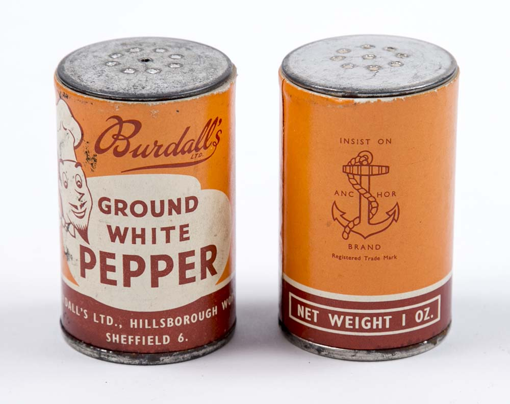 Burdall's Ground White Pepper tin, cylindrical in form, with nine small holes in the top. Orange, brown and white label. Height: 65 mm Diameter: 41 mm Manufactured by Burdall's Ltd, Sheffield, England, UK, 1914 - 18. Copyright Statement: (Copyright) We're happy for you to share these digital images within the spirit of The Commons. Please cite 'Tyne & Wear Archives & Museums' when reusing. Certain restrictions on high quality reproductions and commercial use of the original physical version apply though; if you're unsure please